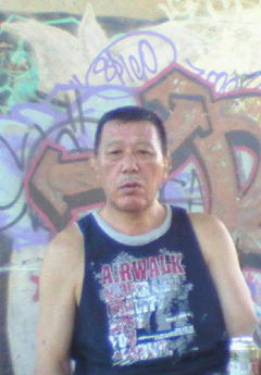 Japanese professional wrestler,Great Kojika.